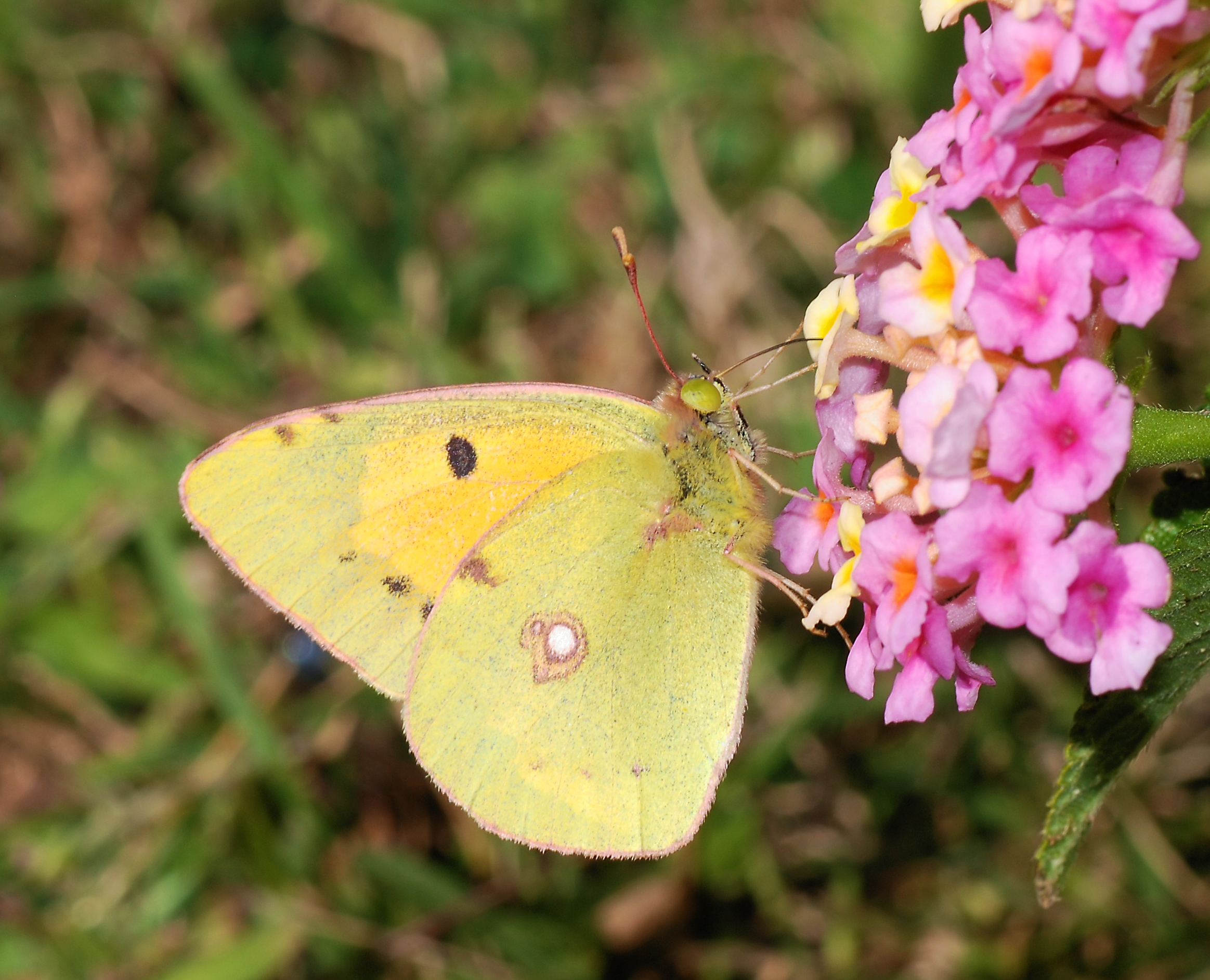 Clouded Yellow butterfly (Colias croceus)